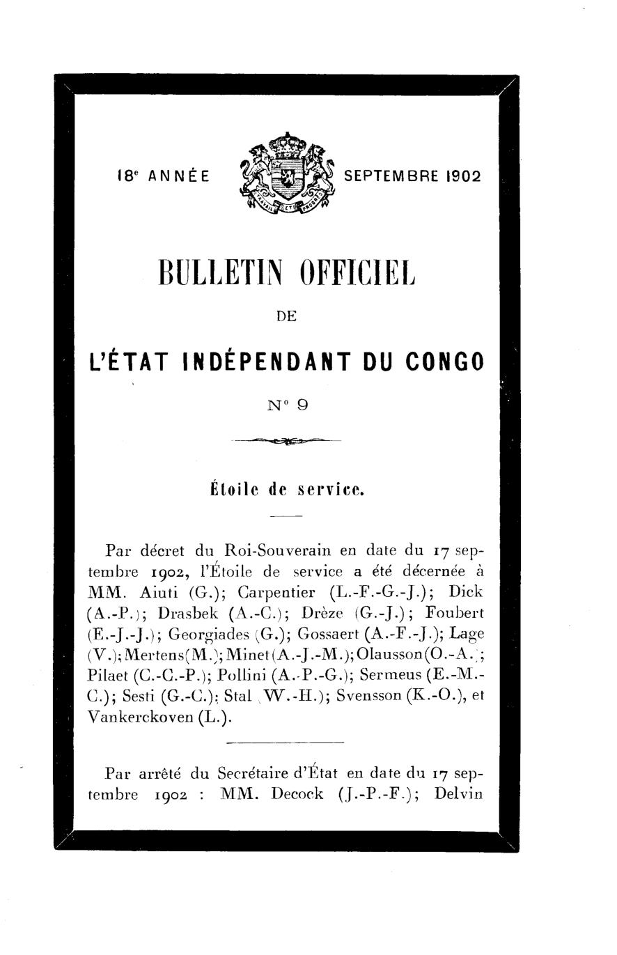 Mourning page in the Bulletin officiel de l'Etat indépendant du Congo following the death of queen Marie Henriette of Belgium, September 1902.